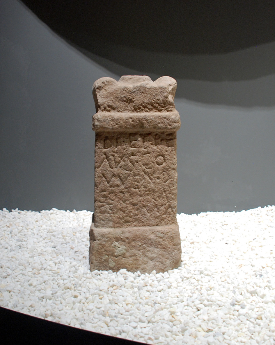 Museum of Prehistory and Archaeology of Cantabria. Altar dedicated by Flavia Genciana from Olea (Valdeolea, Cantabria). Museo Diocesana Regina Coeli.